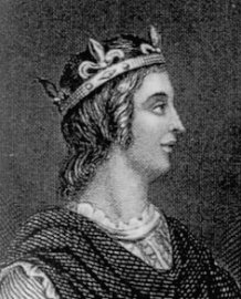 King Edwy (or Eadwig), detail of engraving after unknown artist, late 18th-early 19th century.